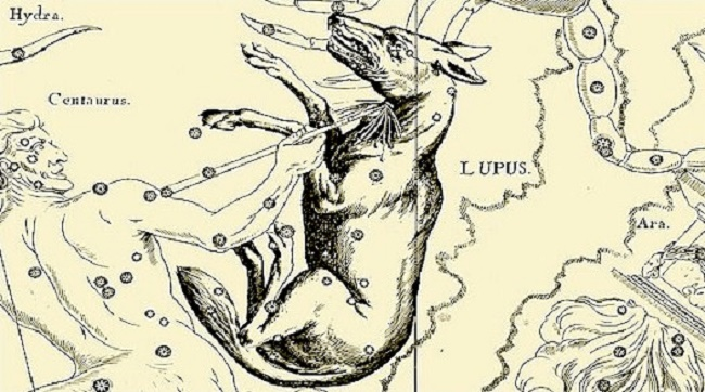 Lupus Constellation